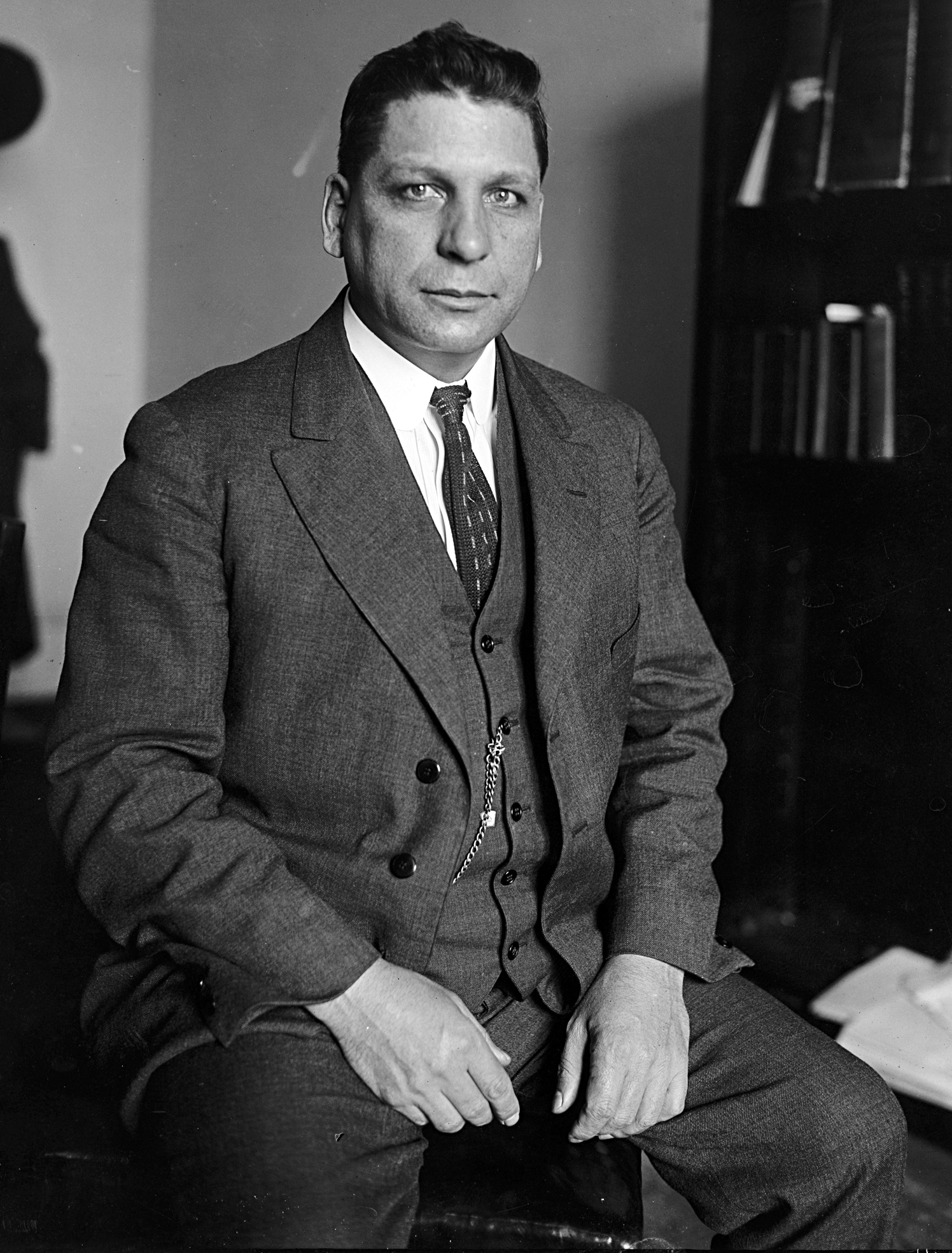 Hubert H. Peavey, US Representative from Wisconsin